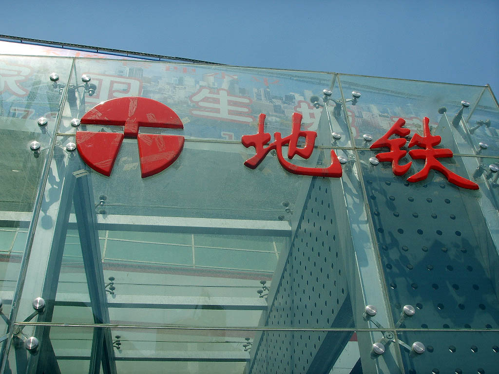 Tianjin Metro Trademark